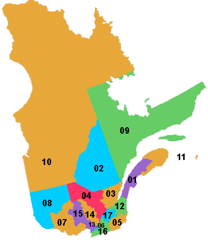 Map of Quebec divided in administrative regions.